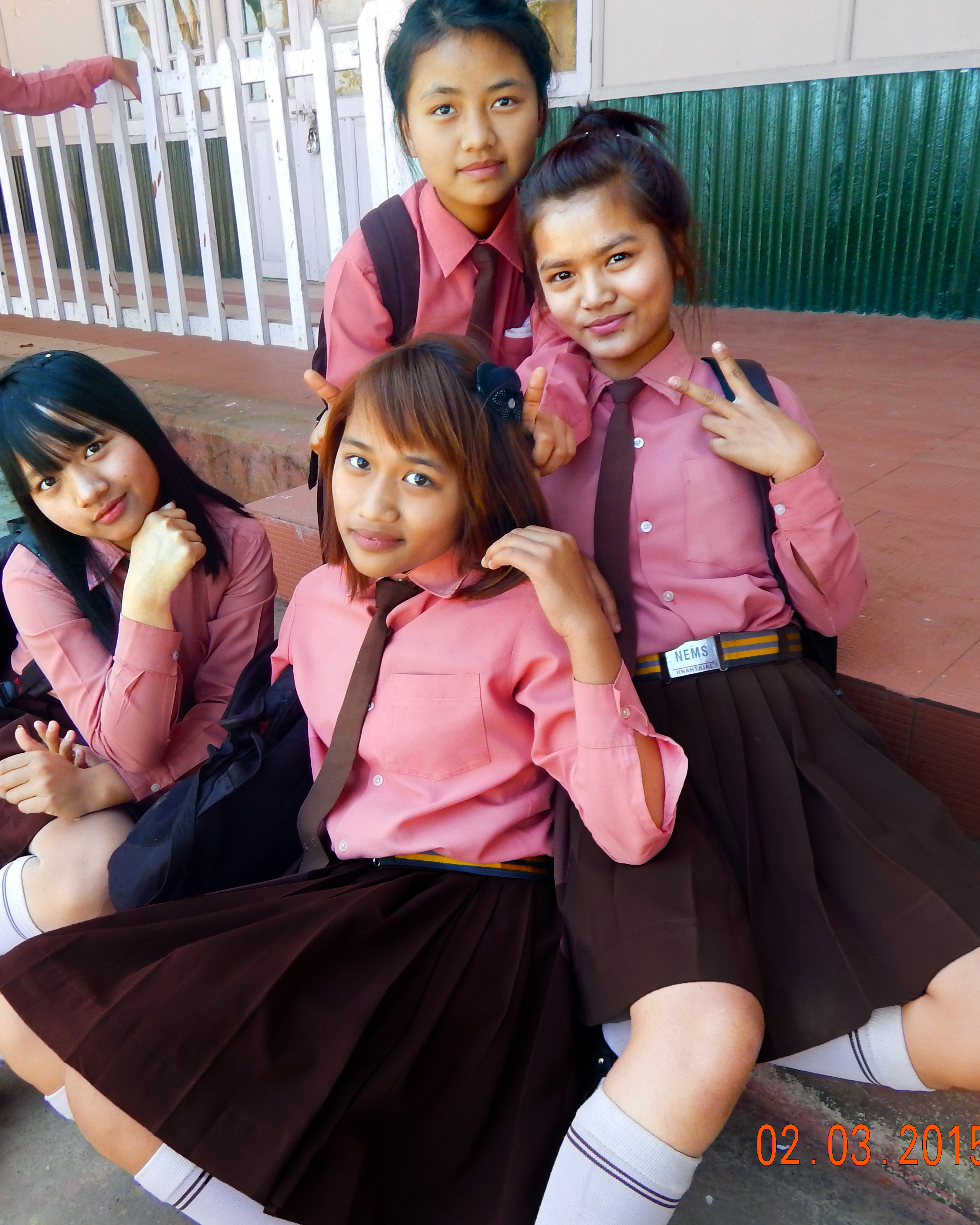 Indian school girls in school uniform